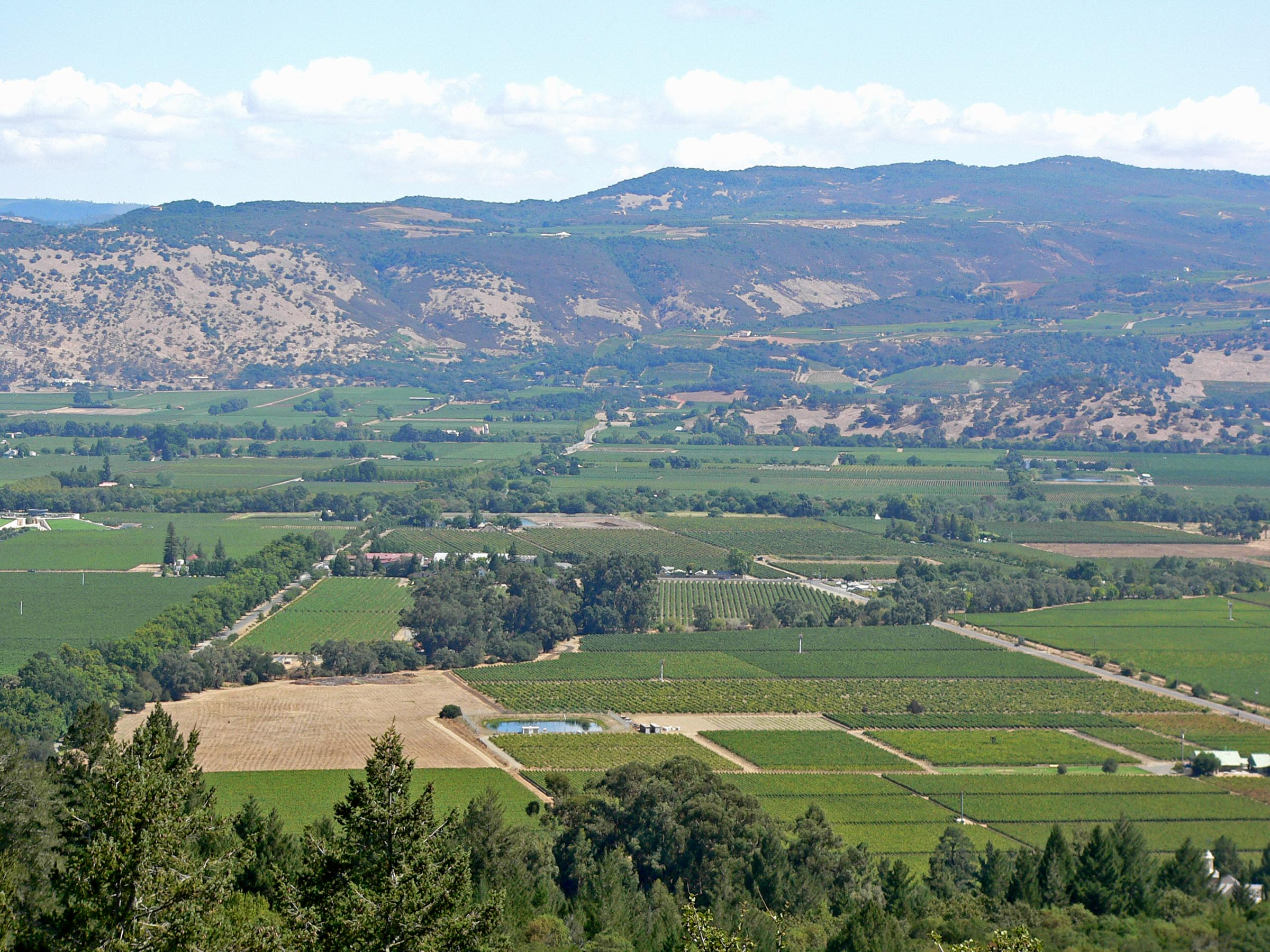 Photo of Napa Valley, California, looking east from the Oakville Grade